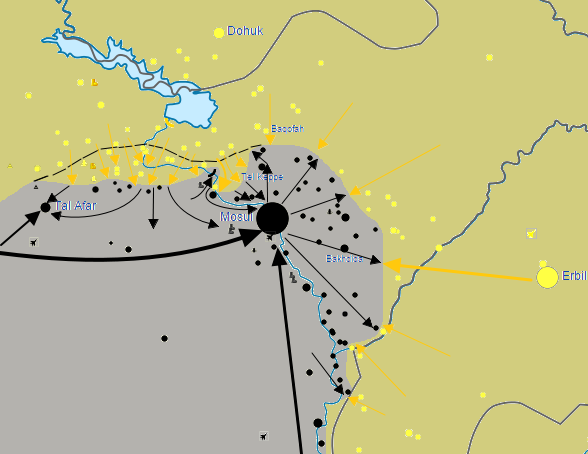 Map of the Mosul offensive (2015), which was launched by Kurdish Peshmerga forces on January 20, 2015, besieging the city of Mosul from the northwest, northeast, and southeast. Peshmerga forces also cut the critical ISIL supply route from Ar-Raqqah to Mosul to the north of Tel Afar, seizing multiple villages in the region as well. 5,000 Peshmerga fighters also opened up another front to the northwest of Mosul, pushing towards the city, before stopping 6 miles short of the city limits on February 10. The offensive was heavily supported by the US-led Coalition. The offensive was the preparatory phase of the planned offensive to retake Mosul, in which Kurdish forces would cut off ISIL supply routes to the north and the west of Mosul, and hold the positions to prevent ISIL troop movement while Iraqi forces move in from the south. By the end of this offensive, at least 2,000 ISIL militants had been killed (both from Peshmerga attacks and intensive Coalition airstrikes).